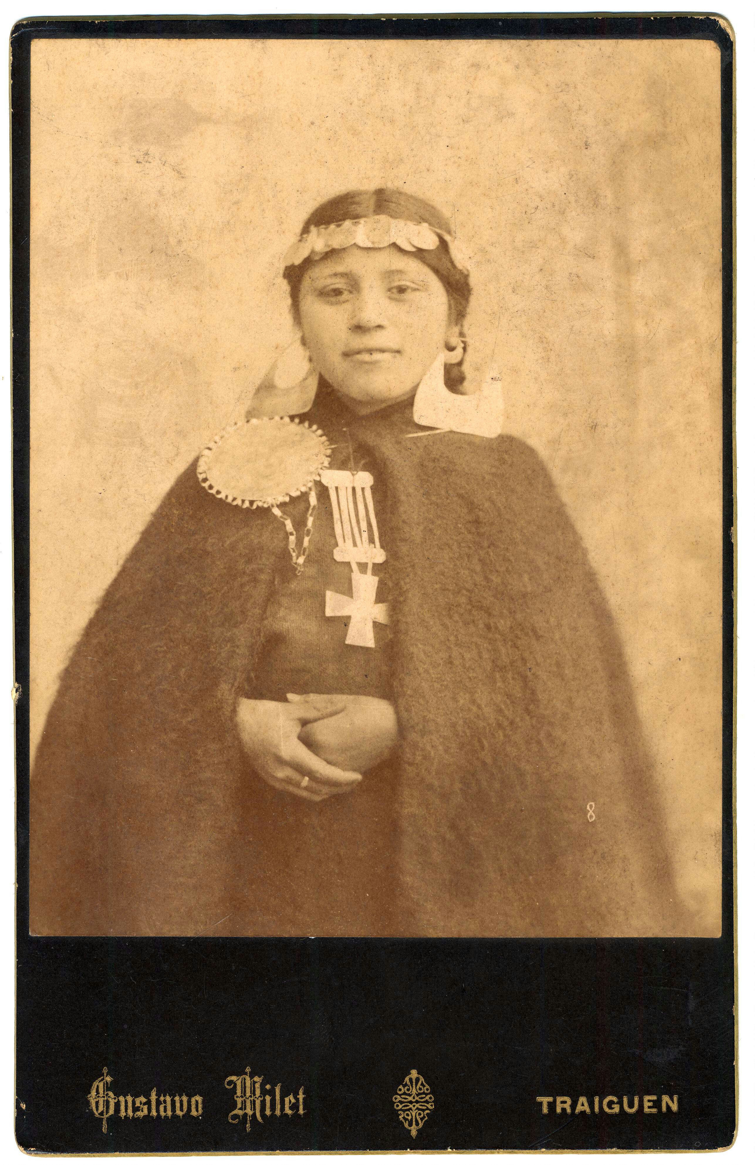 Photograph (black and white); cabinet card; a studio portrait of a young Mapuche woman posed in front of a painted background of an outdoor scene; she wears a medella (coin-chain headdress), quipan ( a square cloth, wrapped around the body), ikulla (shawl) or manta (blanket), chaway (earrings), tupu (clothes pin), trapelakucha (pectoral pendant), and a ring; Traiguen, Chile